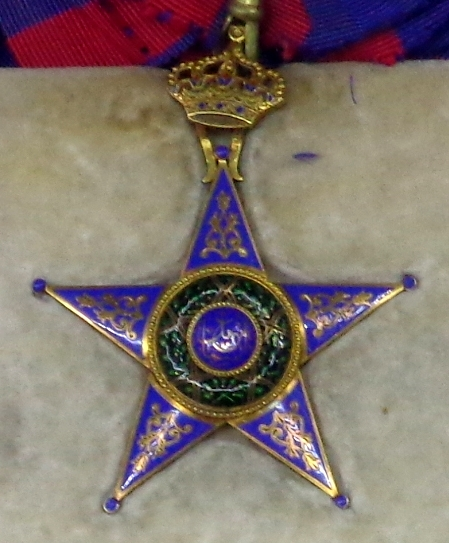 Order of Ismail (Nishan al-Ismail), badge of Grand Cross, 1923-1946. Kingdom of Egypt. The exhibition of the Tallinn Museum of Orders of Knighthood, Estonia.